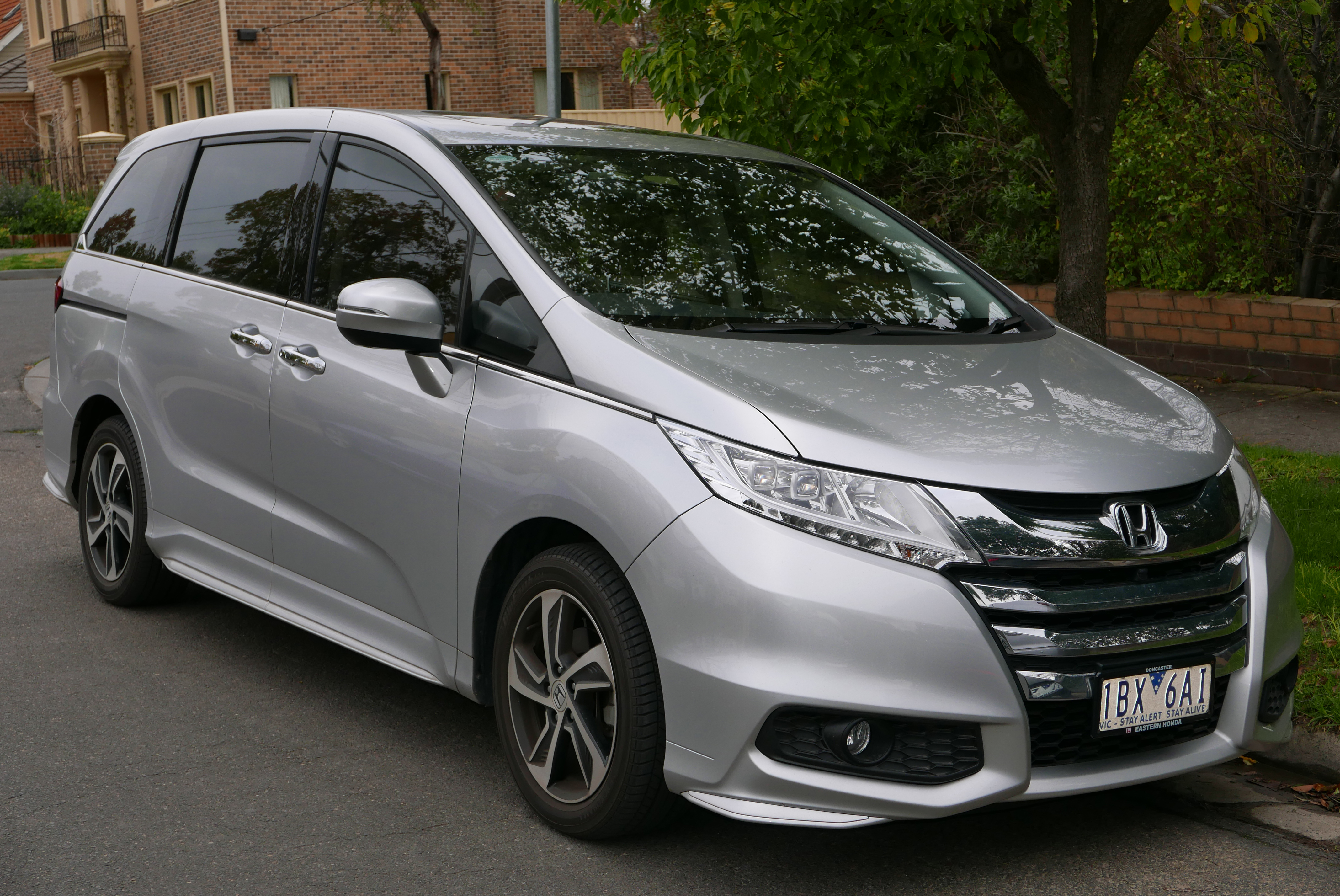 2014 Honda Odyssey (MY14) VTi-L van. Photographed in Balwyn, Victoria, Australia. Vehicle registration enquiry resultsJurisdictionVictoriaRegistration1BX6AIChassis codeJHMRC1850EC201757Engine codeK24W71051333Compliance date2014-05Year of manufacture2014